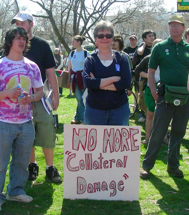 Protester holds sign at March 20, 2010 anti-war protest